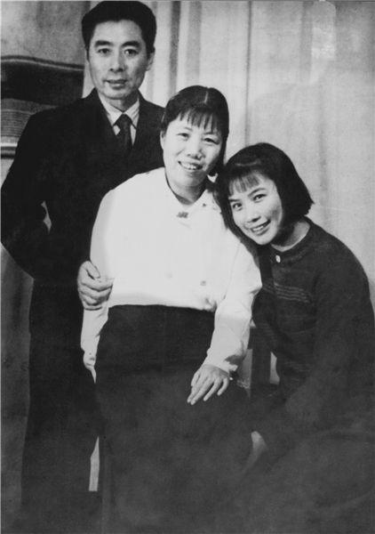 Zhou Enlai (left), his wife Deng Yingchao (center) and adopted daughter Sun Weishi